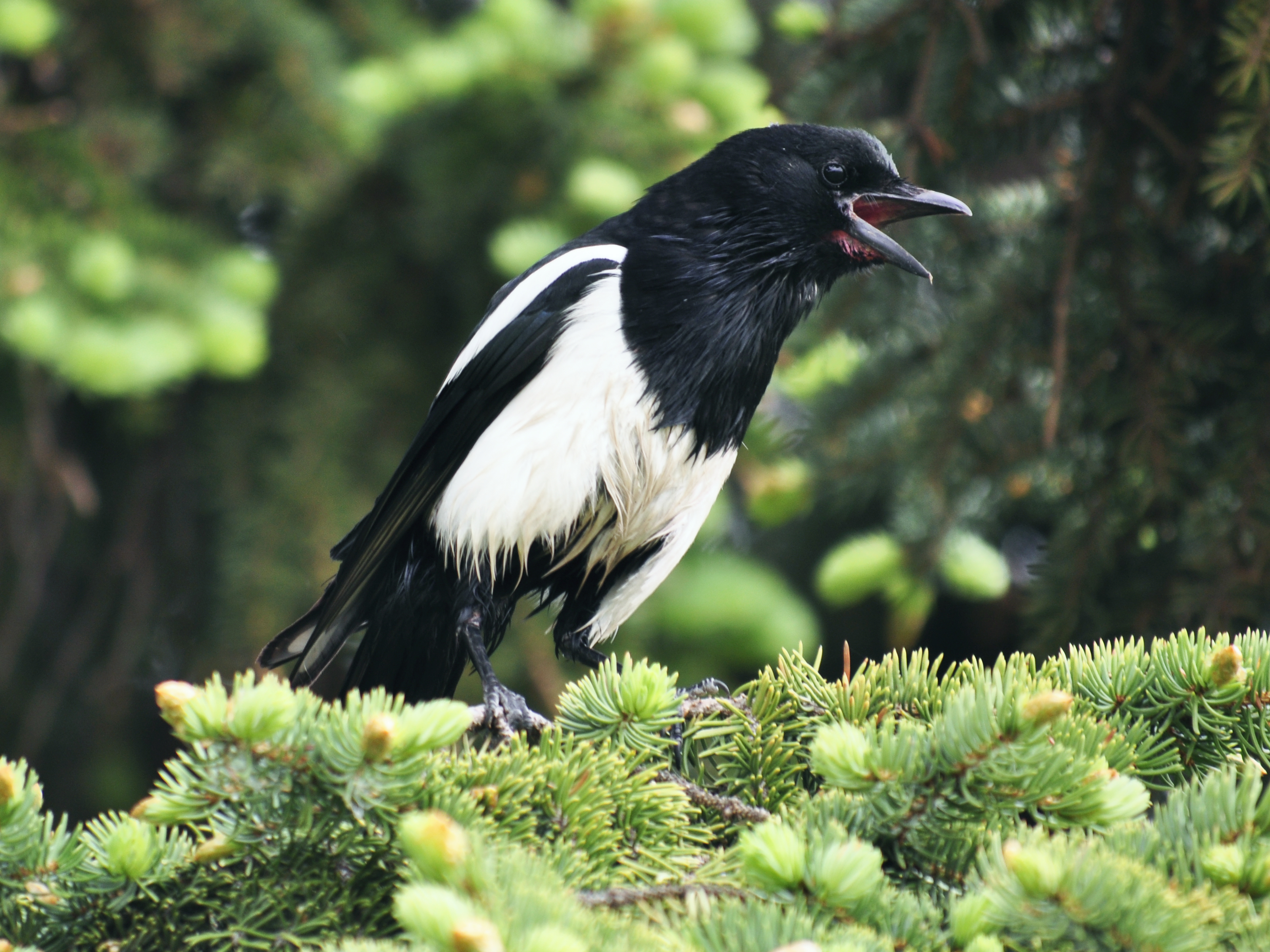 Black-billed magpie in Flagstaff County, Alberta, June 16, 2013